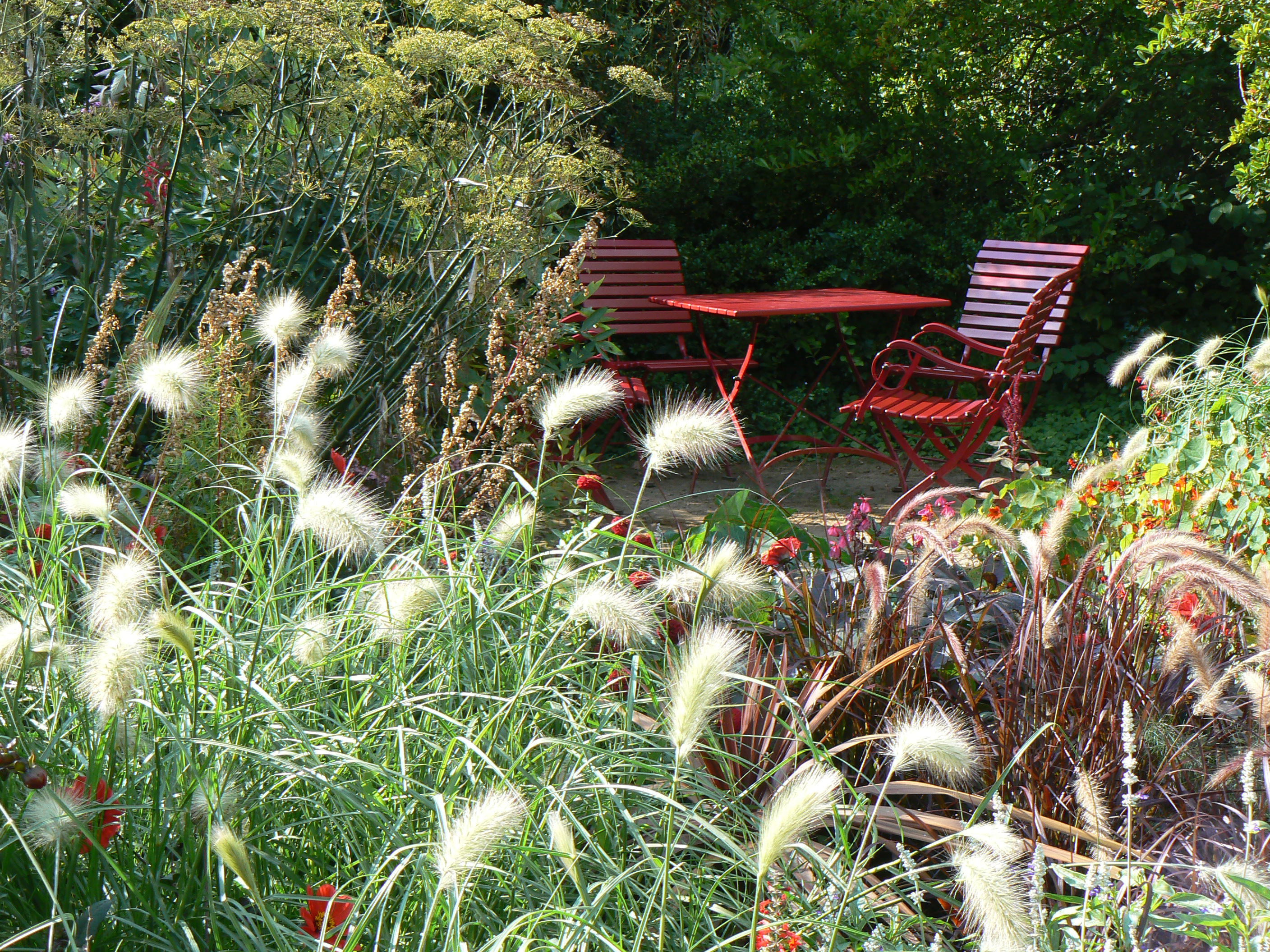 Seating arrangement in the Red Garden in the Arboretum Ellerhoop, Schleswig-Holstein, Germany